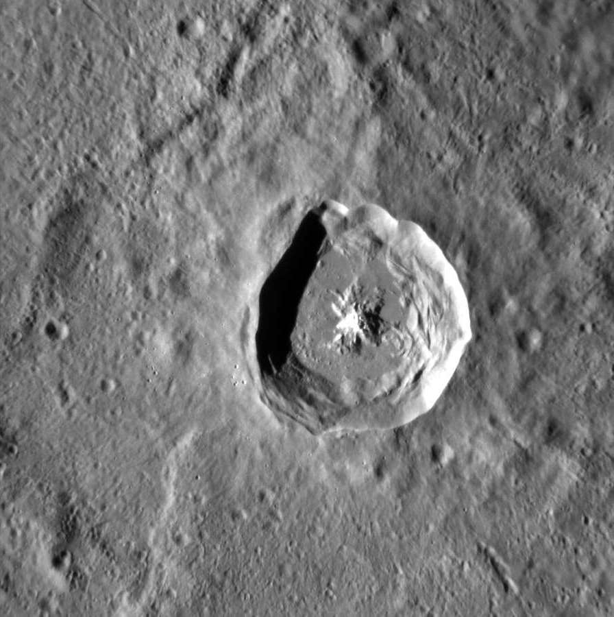 Popova crater on Mercury. MESSENGER Narrow Angle Camera image. Approximate north is up. Width is about 89.5 km. Emission Angle: 6.9 Incidence Angle: 68.0 Latitude: -34.6 Longitude: 293.2 Phase Angle: 74.7